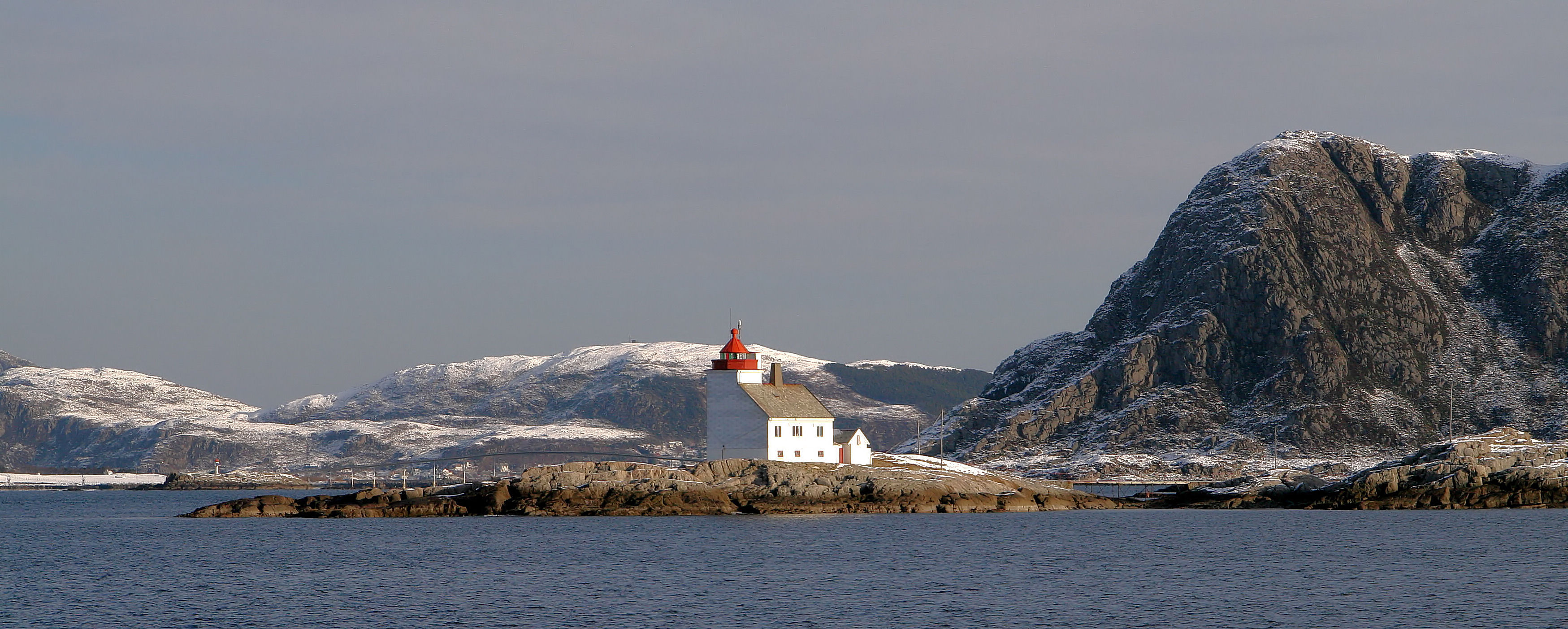 Lighthouse Herøy township south of Ålesund (Norway). Winter 2005-2006.